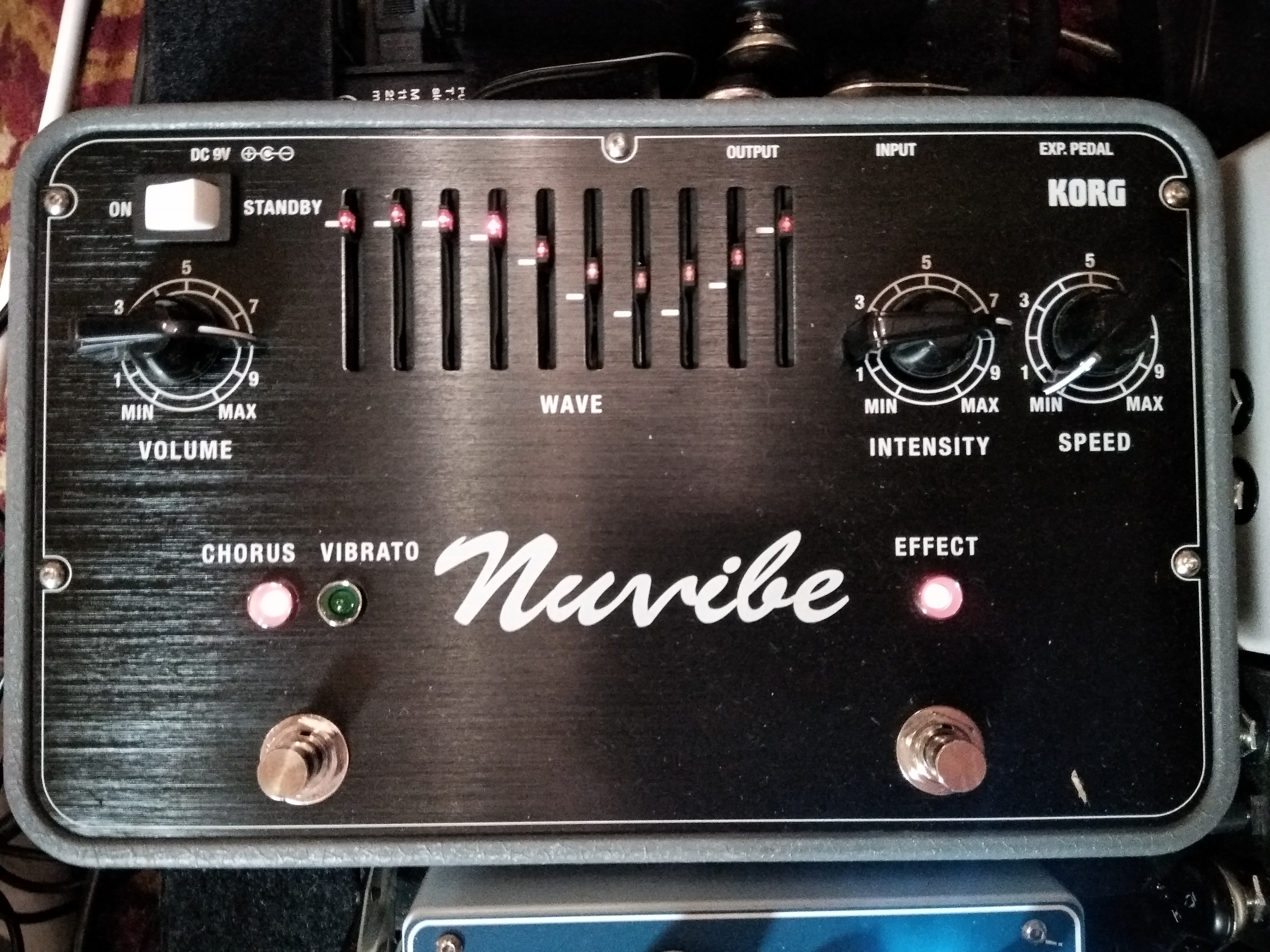 Korg Nuvibe pedal. Designed in 2014 by Fumio Mieda, inventor of the UniVibe, this pedal recreates digitally the original univibe with added sliders to precisely control the waveform.